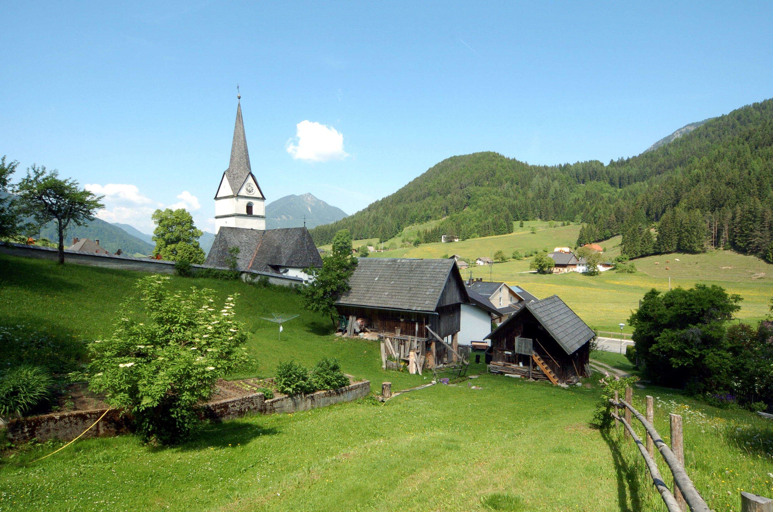 Zell-Pfarre (slow. Sele-Fara) near Ferlach, district Klagenfurt in Carinthia / Austria / European Union.